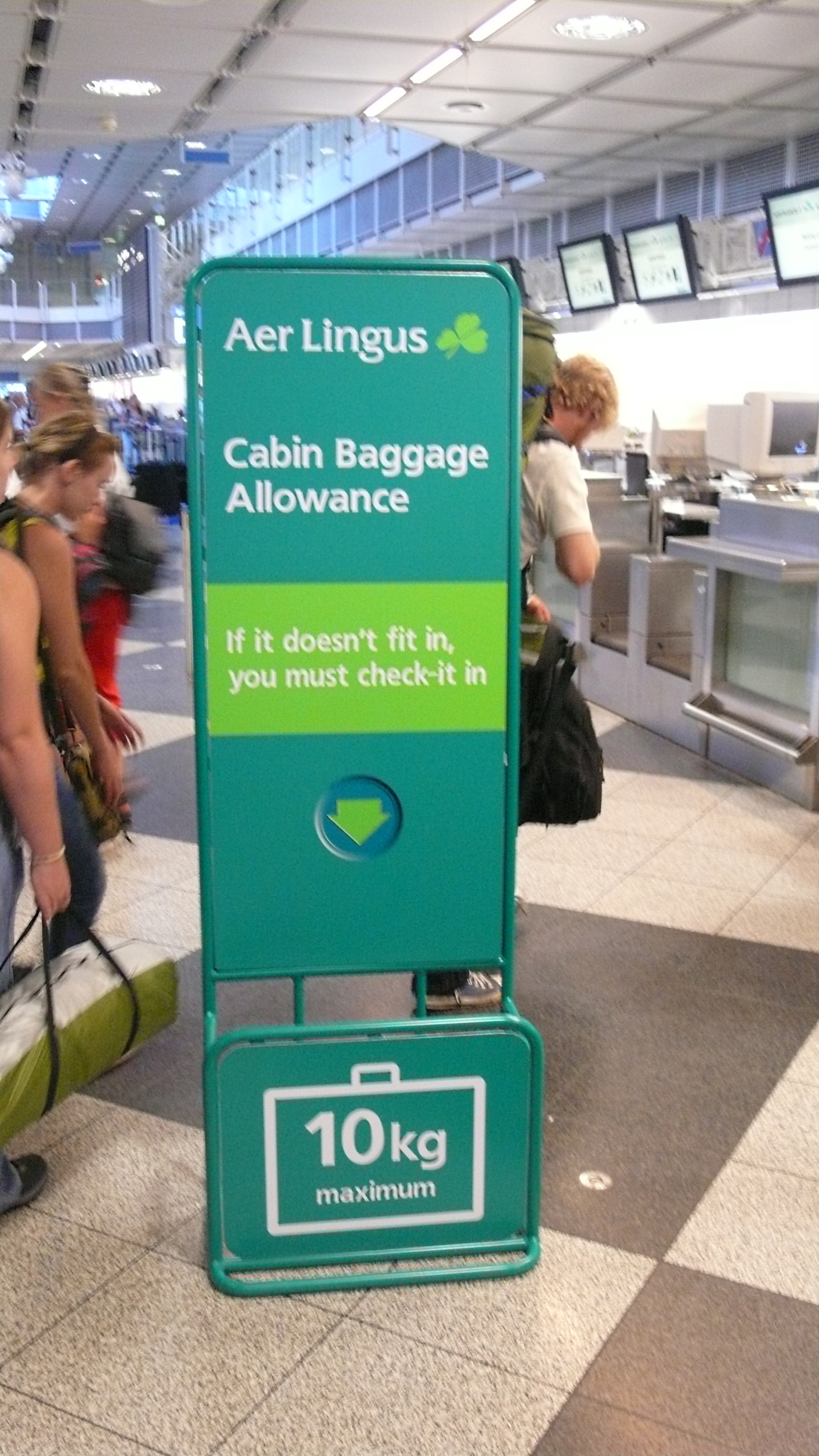 Luggage